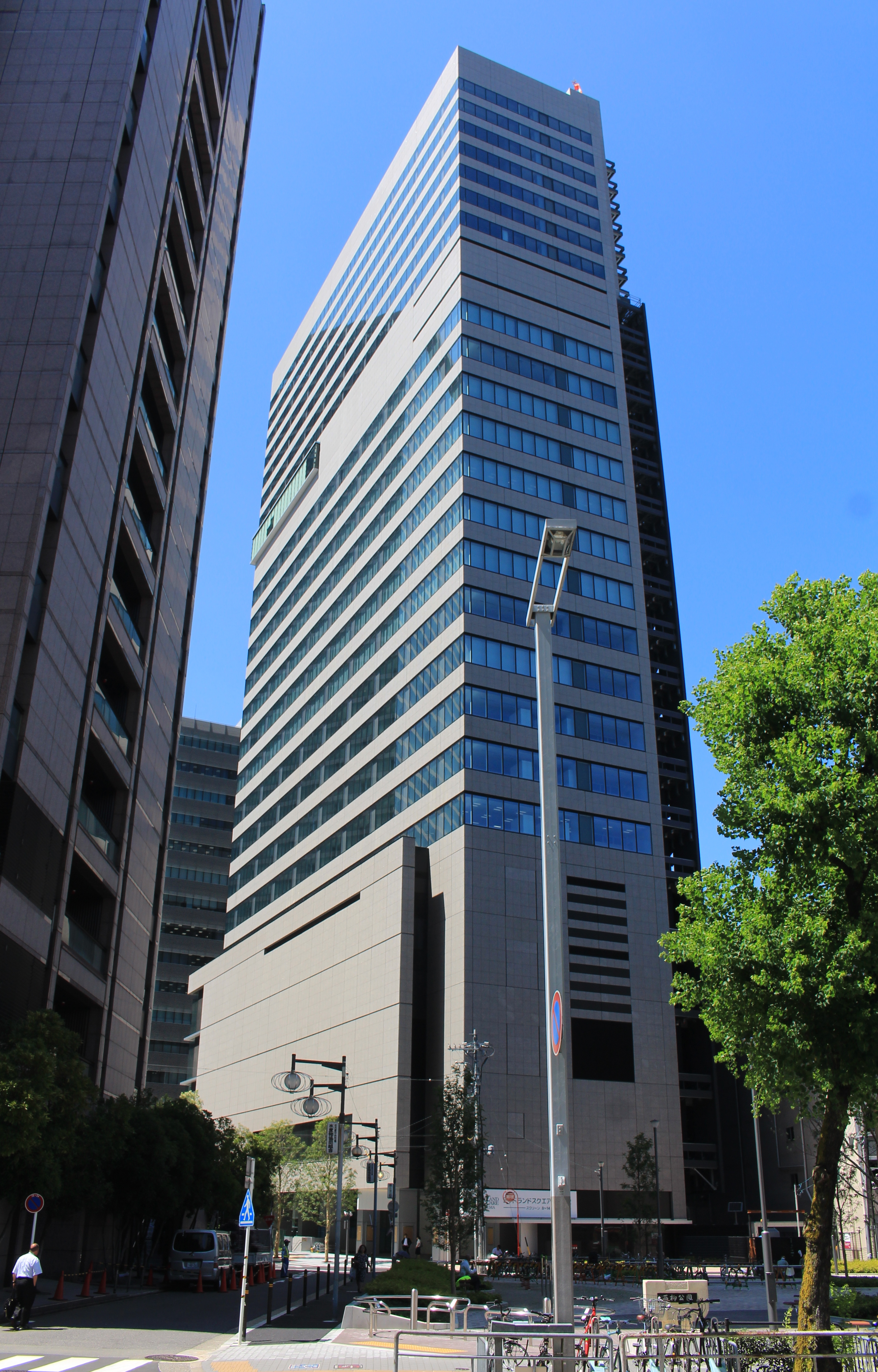 Symphony Toyota Building in Meieki, Nakamura-ku, Nagoya, Aichi prefecture, Japan.